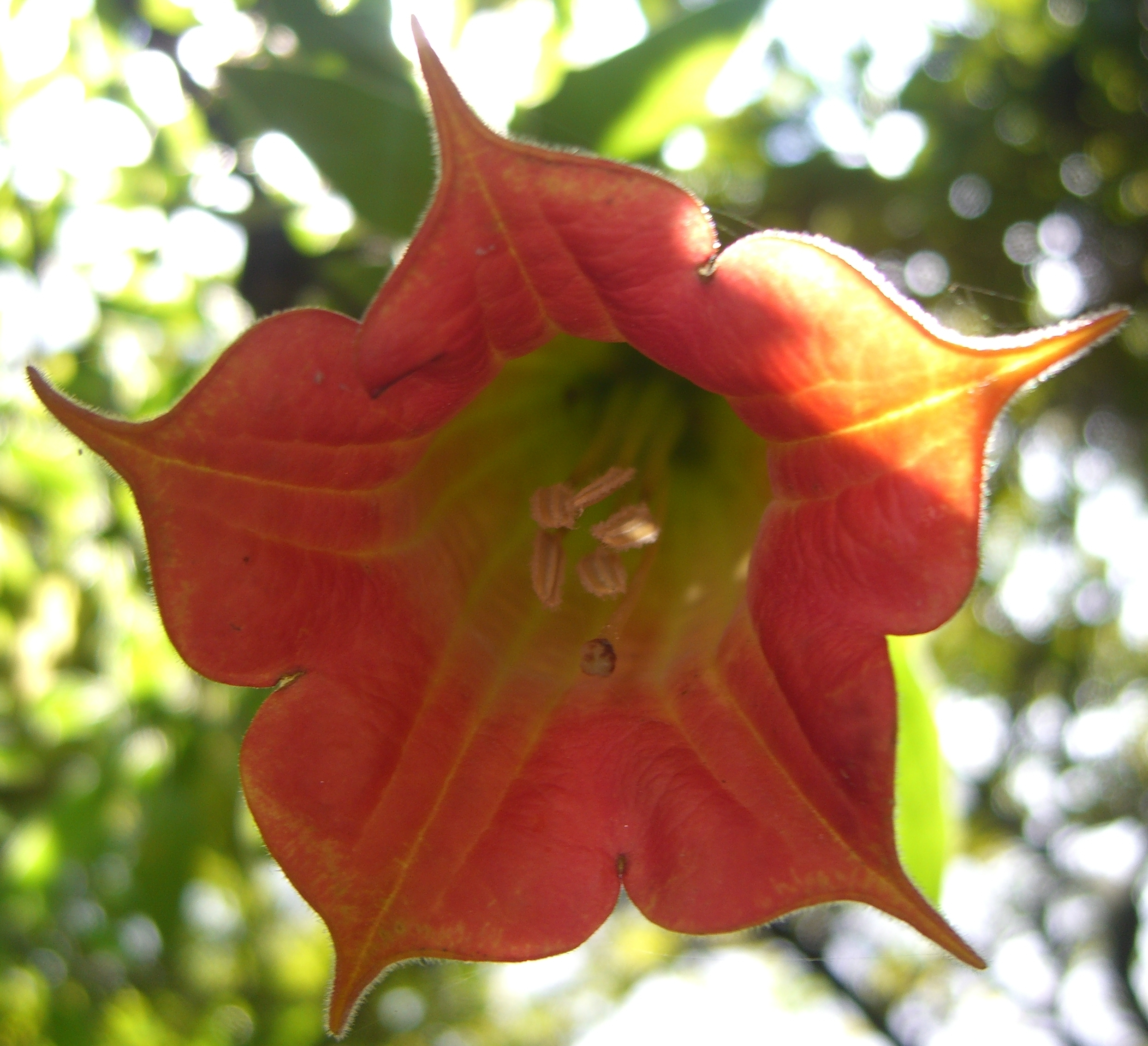 Please report references to .